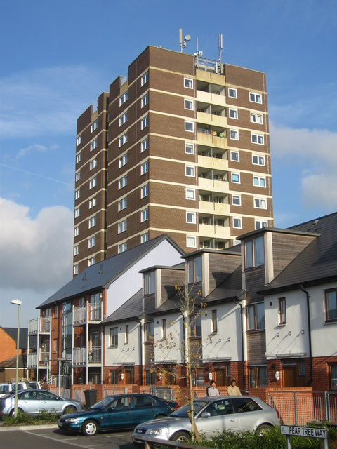 Oakridge Tower The old and the new. Oakridge tower is the last part to remain of this area which has been redeveloped with housing for key workers. The tower can be a real pain when it comes to picking up TV signals.